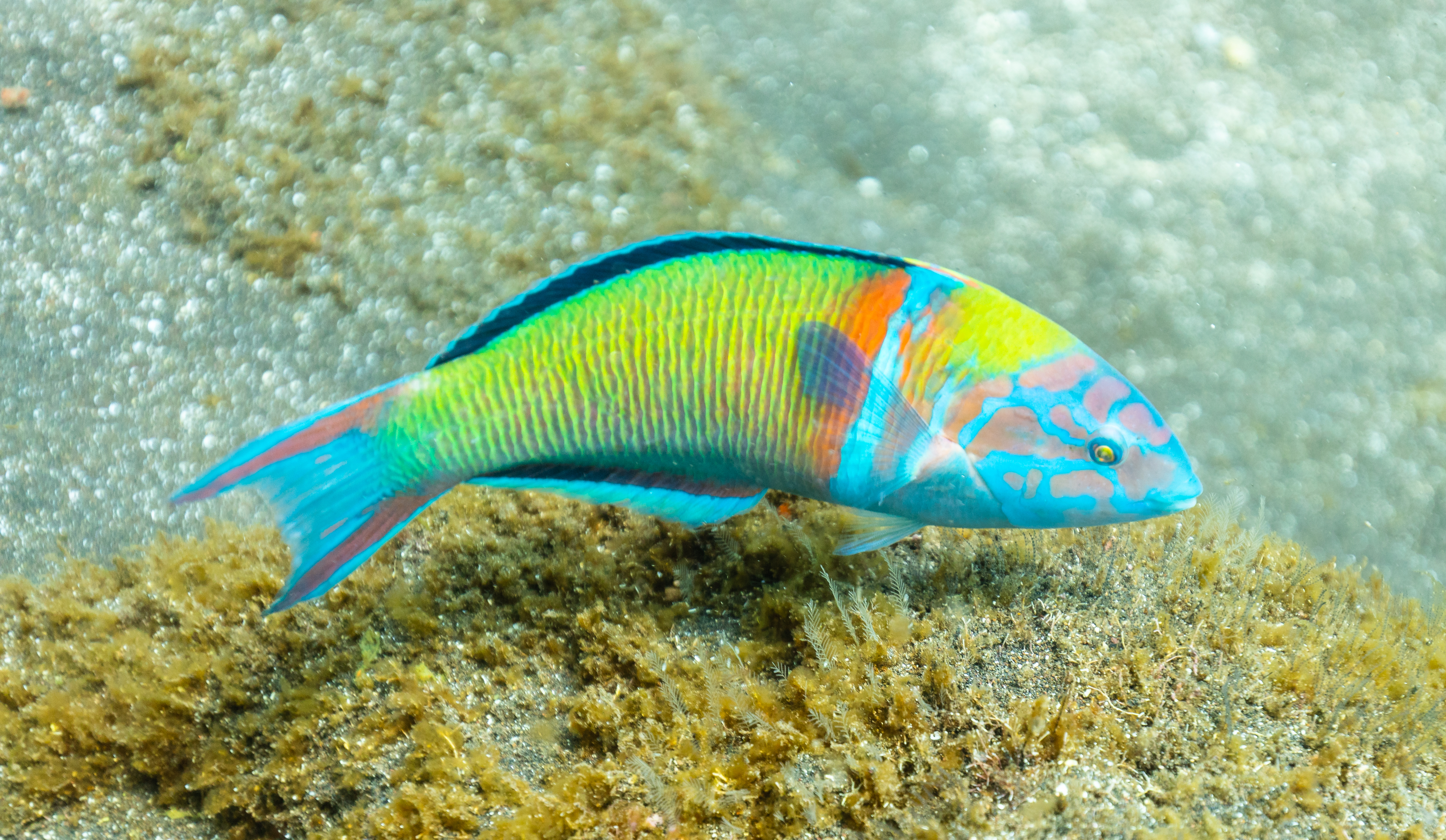 Ornate wrasse (Thalassoma pavo), Madeira, Portugal